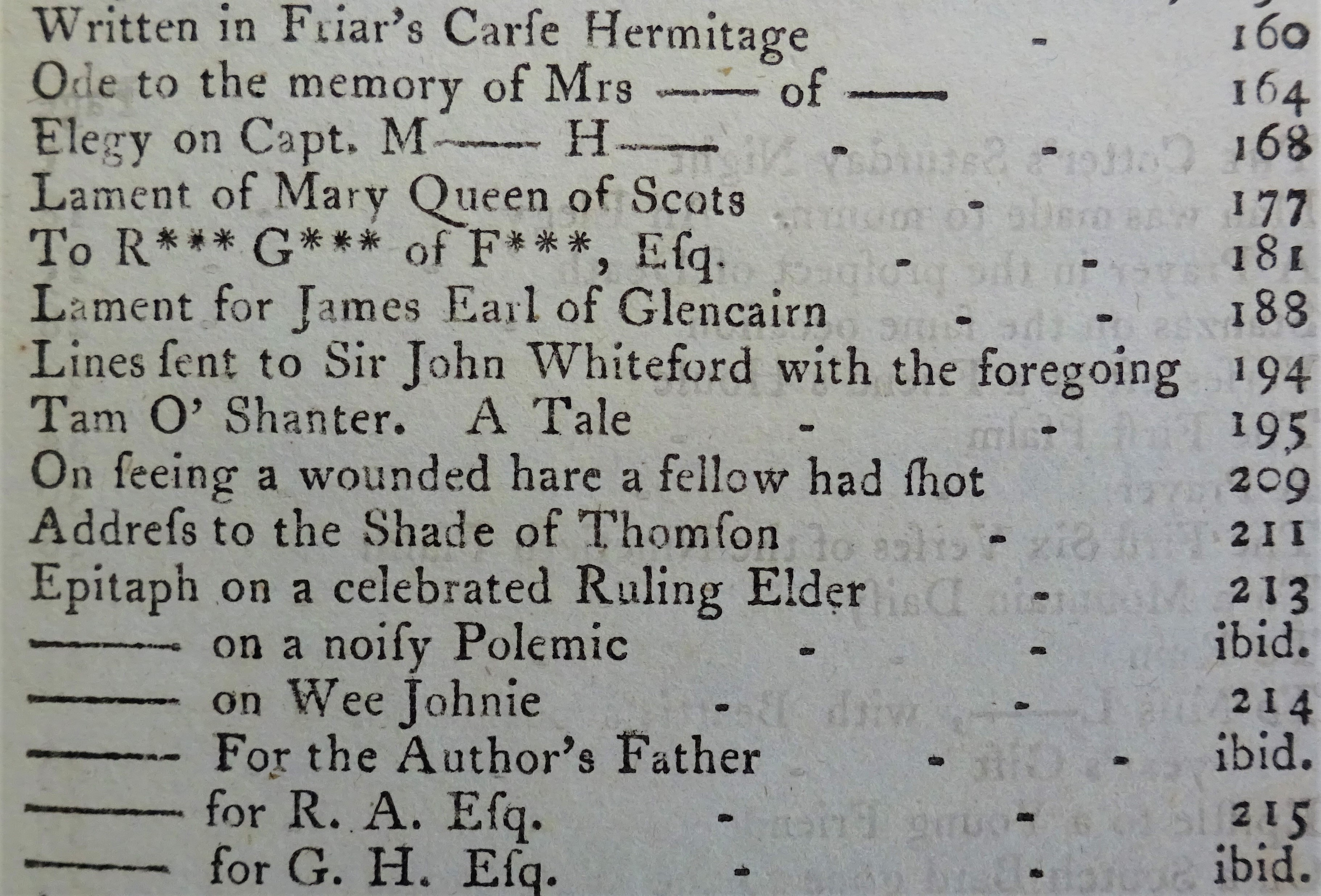 The Tam O'Shanter poem listing. 1794 Edition. Poems, Chiefly in the Scottish Dialect. Robert Burns. The first time it was published in book form.